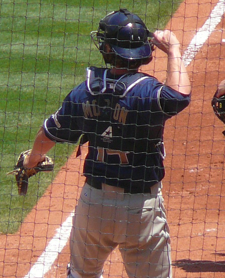 Please attribute this photo by name if used in places other than Wikipedia. 06:52, 29 May 2008 . . Chrisjnelson . . 448×553 (274 KB)